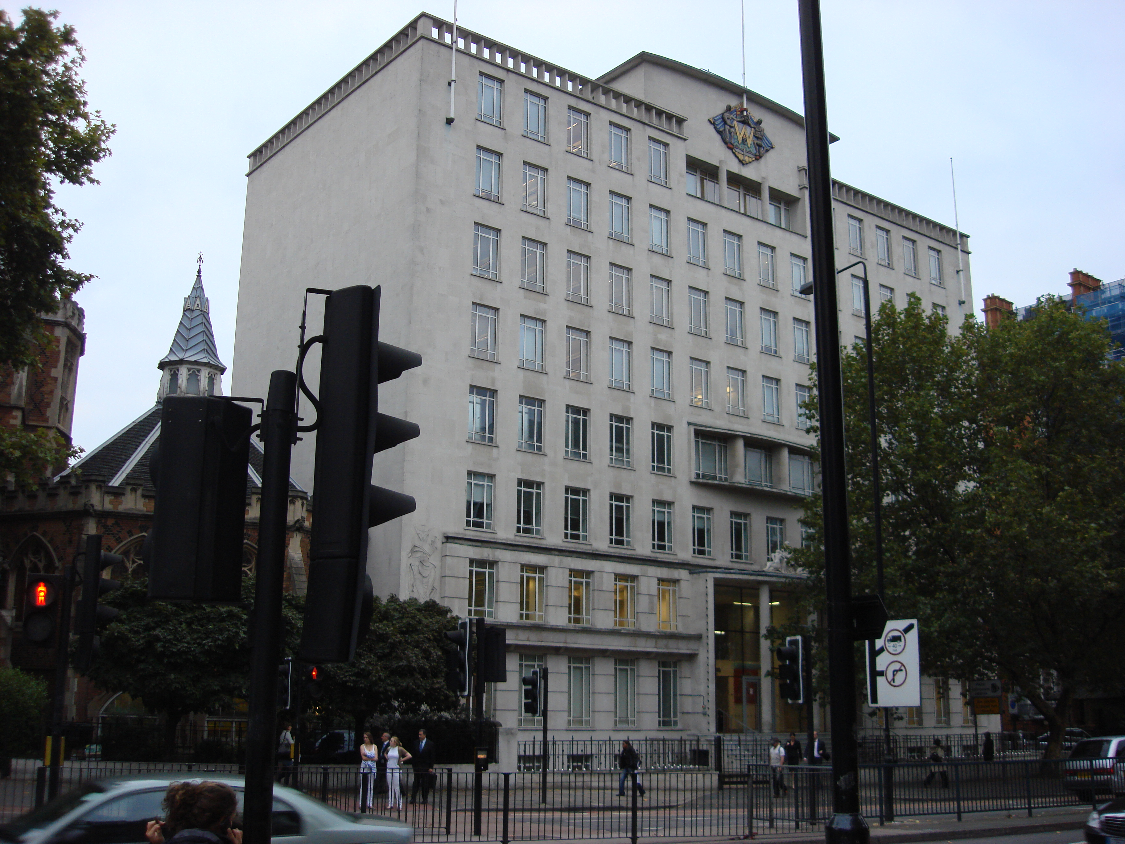 Woolworths Group PLC, head office on Marylebone Road